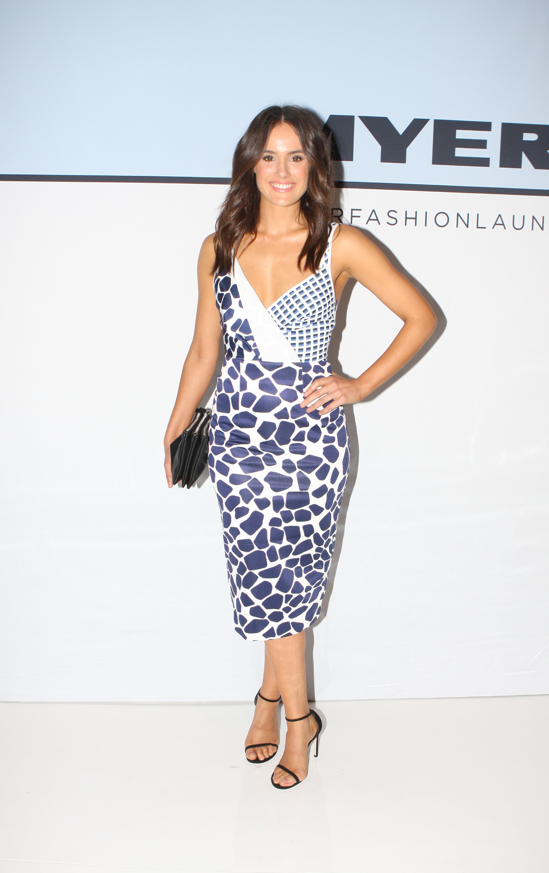 Cassie Howarth at Myer Spring/Summer 2015 Fashion Launch Red Carpet